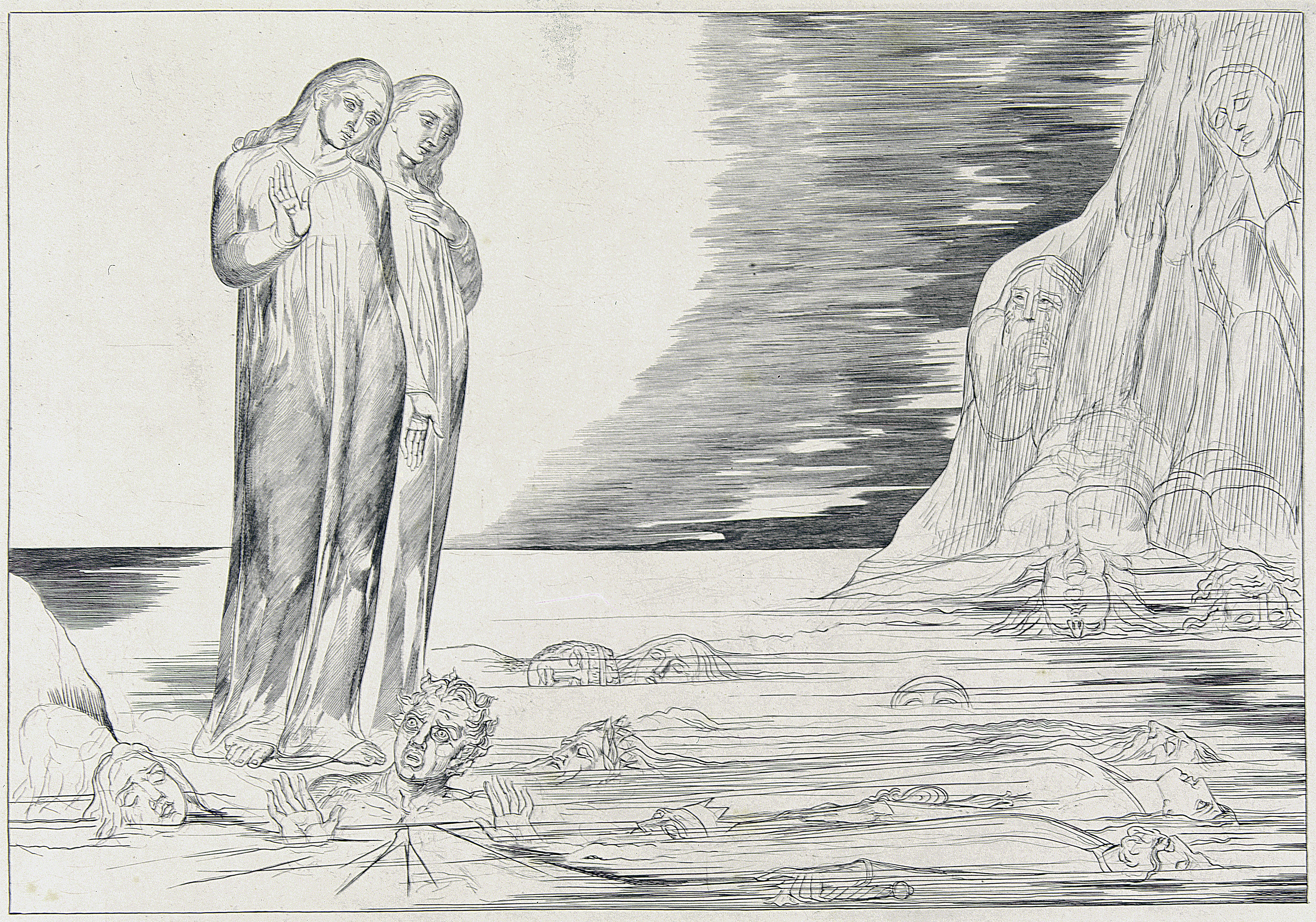 Blake's Illustrations of Dante, object 8 (Bentley 448-7) Dante Striking Against Bocca Degli Abati